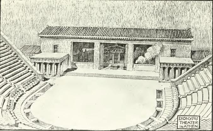 Reconstruction of the Theatre of Dionysus, Athens. Lycurgan Theatre or Hellenistic, from DIE BAUGESCHICHTLICHE ENTWICKLUNG DES ANTIKEN THEATERS, Fiechter, Munich 1914. plate 63.